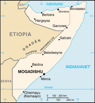 CIA map of Somalia with Norwegian caption